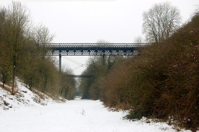 This impressive (and pioneering) example of Victorian civil engineering spans the now-dismantled Rugby to Leamington railway line at the site of the former Marton Junction. It carries an ancient track, Ridgeway Lane, over the 60-feet-deep cutting where the railway pierced a ridge of high ground between Hunningham Hill and Snowford. The single-span wrought-iron bridge is of trussed lattice girder construction and when built in 1851 it was the longest such bridge ever constructed. In later years, four lattice columns and cross-ties were added to reinforce the original structure.